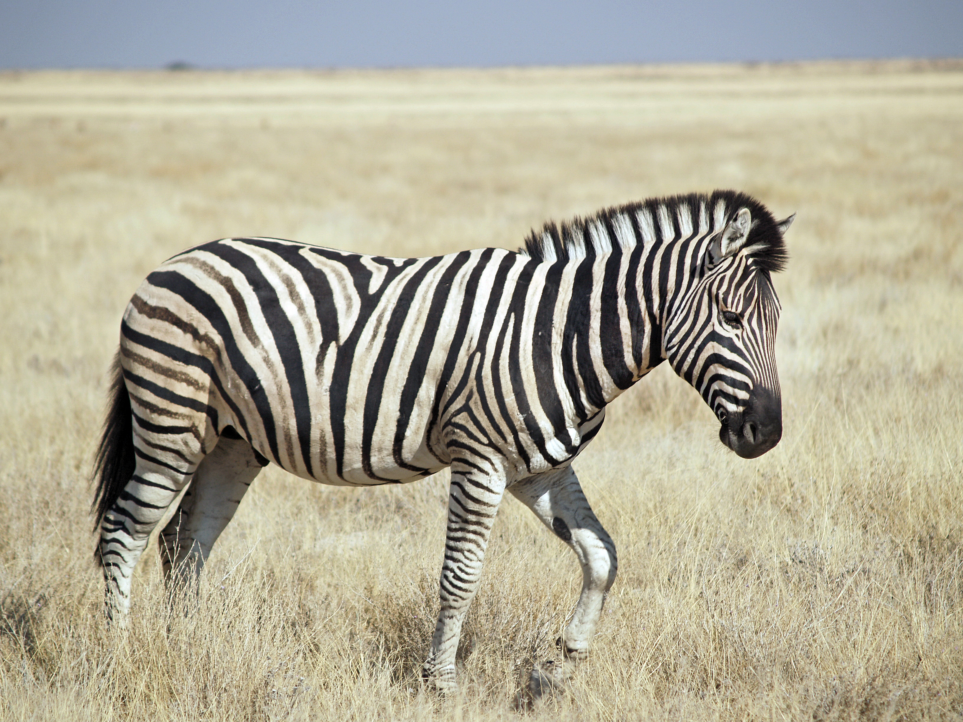 A wild male Burchell's Zebra (Equus quagga burchellii) in Etosha Park, Namibia.